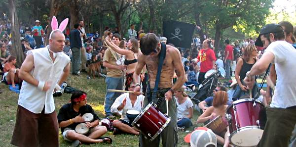 Description: One of the smaller drum circles at the 2005 incarnation of Austin, Texas's Eeyore's Birthday Party, an annual hippie festival held in honor of A. A. Milne's character Eeyore. Drum circles at the event can contain anywhere from a handful of drummers and dancers, such as this one, to hundreds of participants in the largest circles. Source: Self-Made. Photographer: Kit O'Connell, Kit O'Connell (Todfox: user / talk / contribs) 01:00, 19 January 2006 (UTC)